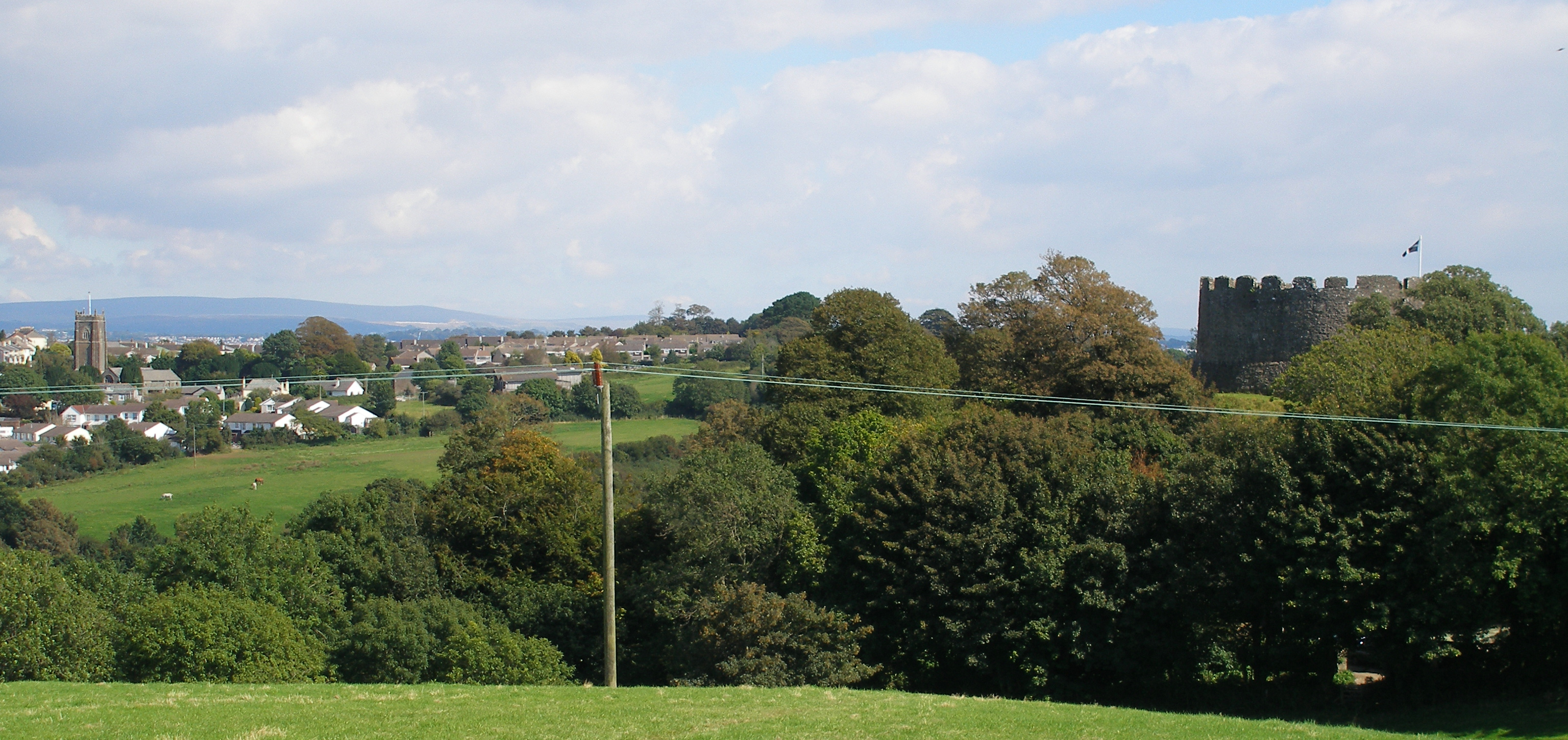 Trematon Castle and Saltash.